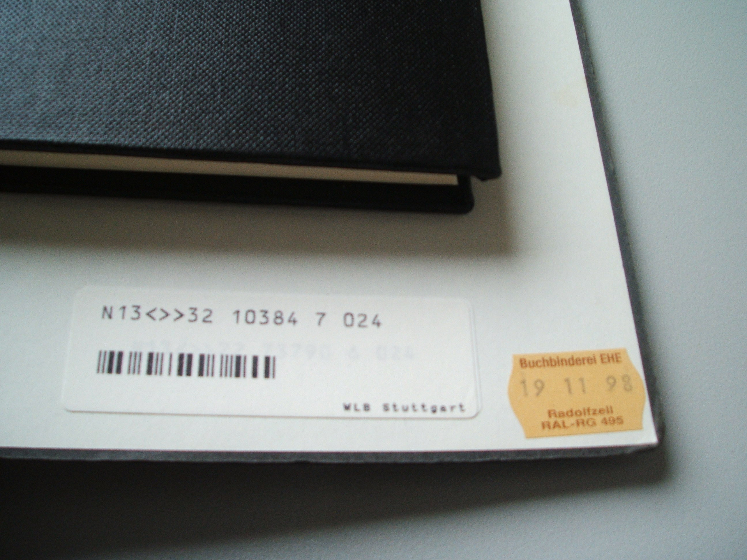 Shelf Mark inside a book of Württembergische Landesbibliothek, Stuttgart